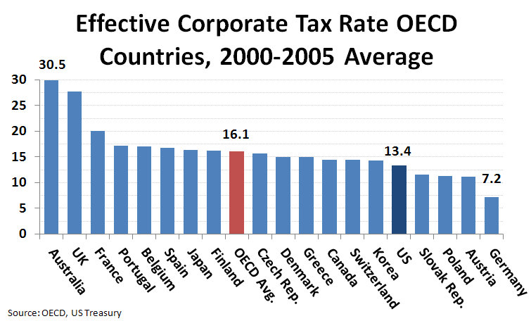 Effective corporate tax rate for OECD countries averaged between 2000 and 2005. The effective corporate tax rate in the chart is equal to the country's net corporate taxes/corporate surplus averaged over the years 2000 to 2005.